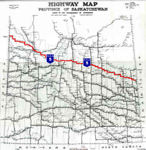 Provincial Highway 5 this is the route in 1926. It was changed in the 1970's as the portion north west of Saskatoon became the Yellowhead or Saskatchewan Highway 16.